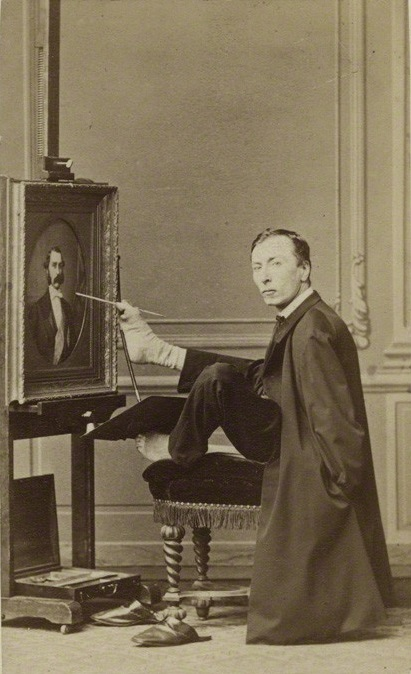 Photo of Charles Felu (1830-1900), a Belgian armless painter.